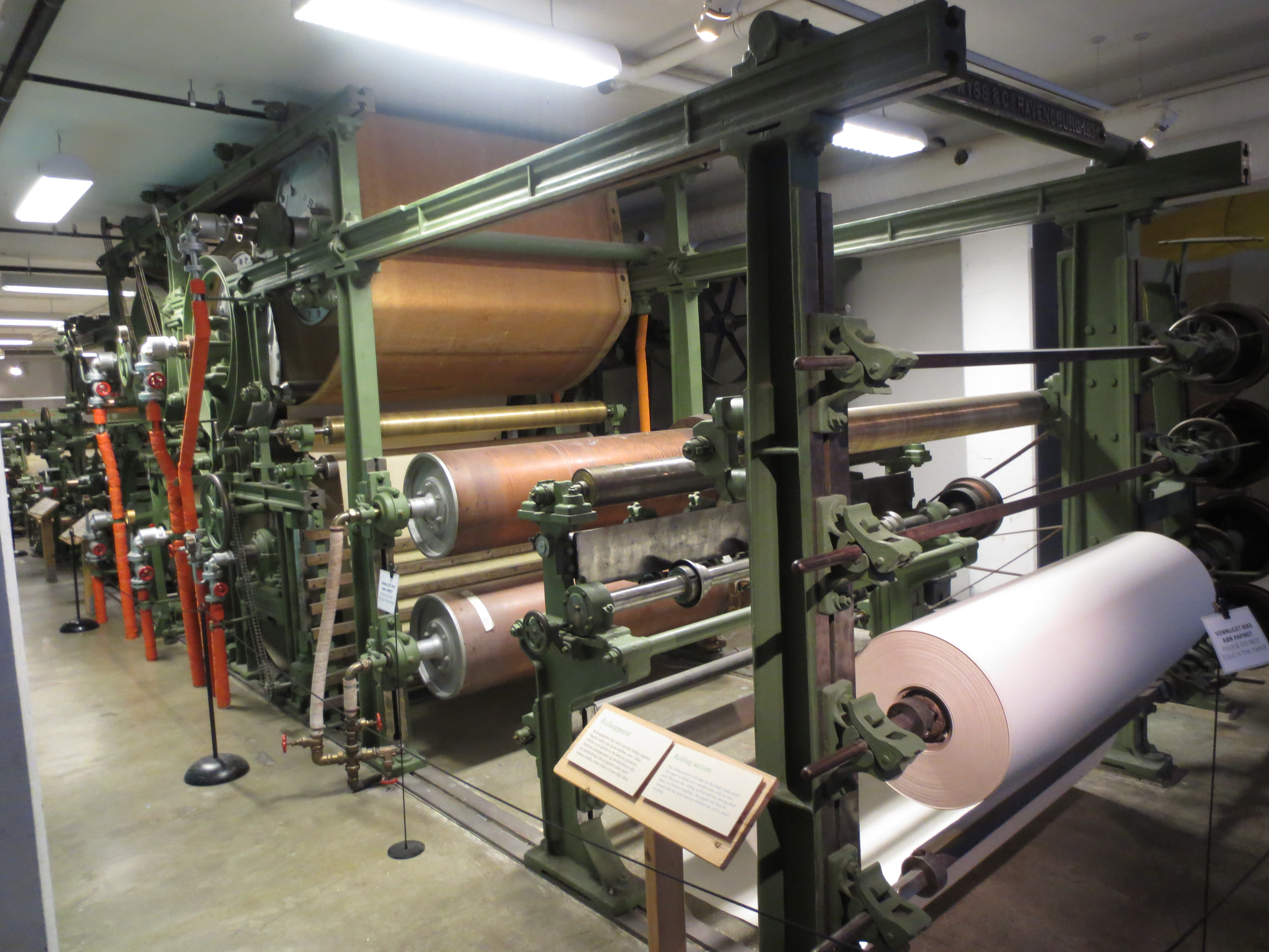 Rolling machines for paper works, model 1902. At the Norwegian Technical Museum, Oslo.